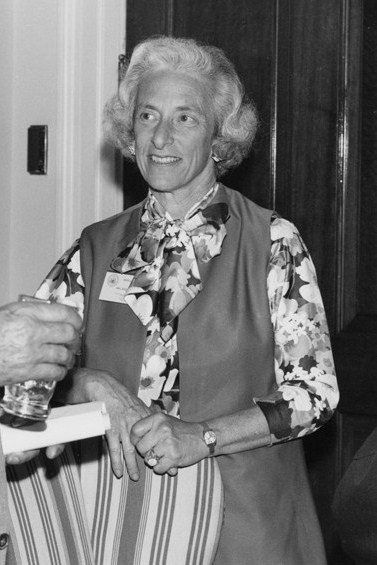 Barbara Wertheim Tuchman, an American historian.